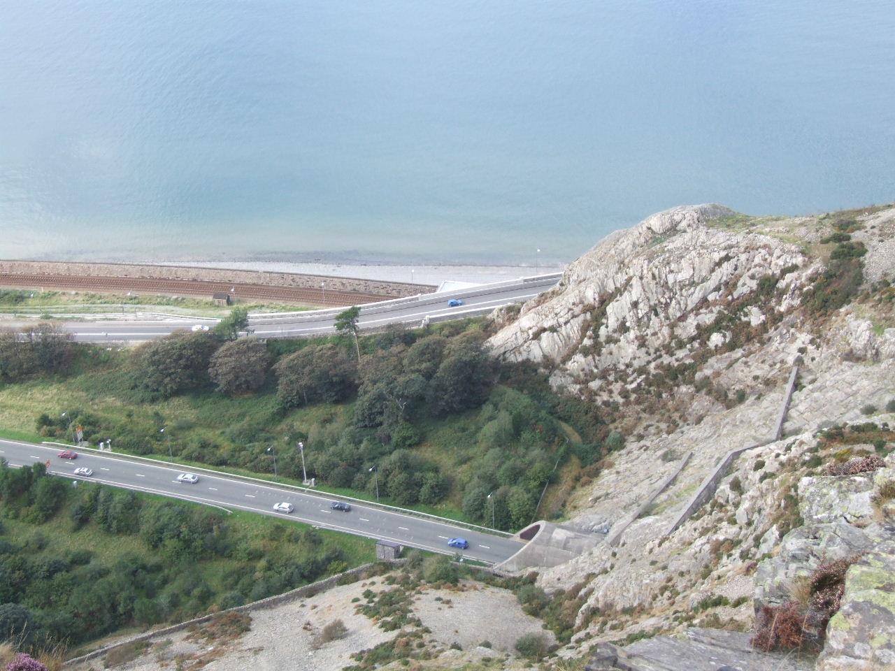 Penmaen-bach road tunnels on the A55 road at Penmaenmawr, Conwy County, Wales